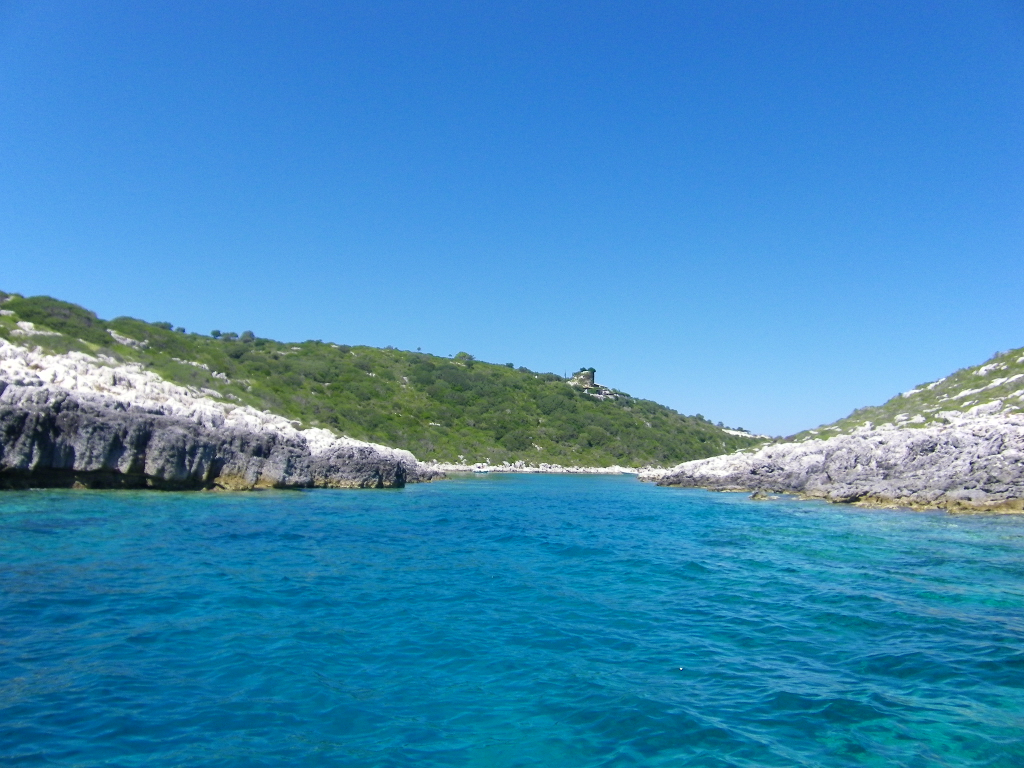 Nature, clean sea in the Ionean sea, Greece